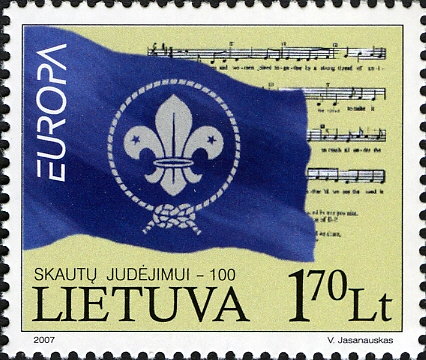 Europa 2007. Centenary of the Scout Movement. Date of issue: 14th April 2007 Designer: V. Jasanauskas Paper: chalky Printing process: offset Perforation: comb 13 1/2 : 13 1/4 Size of a stamp: 36 x 30 mm Size of a Miniature Sheet: 100 x 175 mm Miniature Sheet composition: 10 (2 x 5) stamps Printing run: 200.000 stamps or 20.000 Miniature Sheets Michel catalogue numbers: 933-934 1.70 L. multicoloured. Symbols of world scout organization